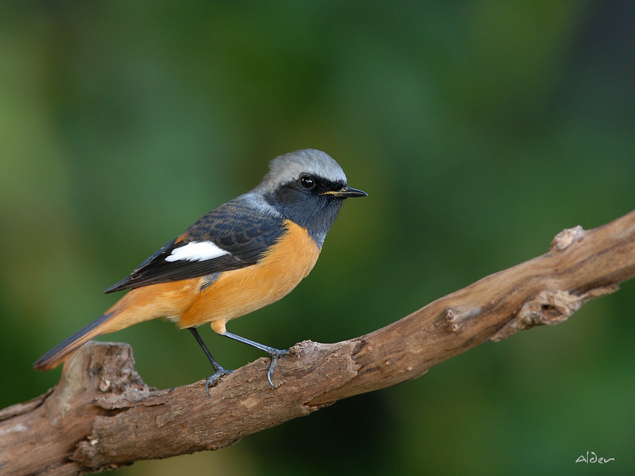 Male, winter visitor, taken at Taipei Botanical Garden.